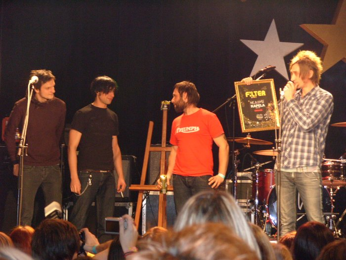 Snshine během koncertu v pražské Akropoli, leden 2008 ENGLISH: czech band Sunshine performing in Prague, January 2008